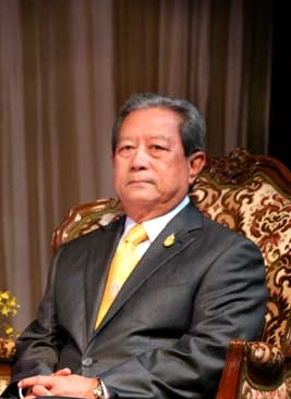 Prime Minister of Thailand General Surayud Chulanont at a meeting in Bangkok, Thailand